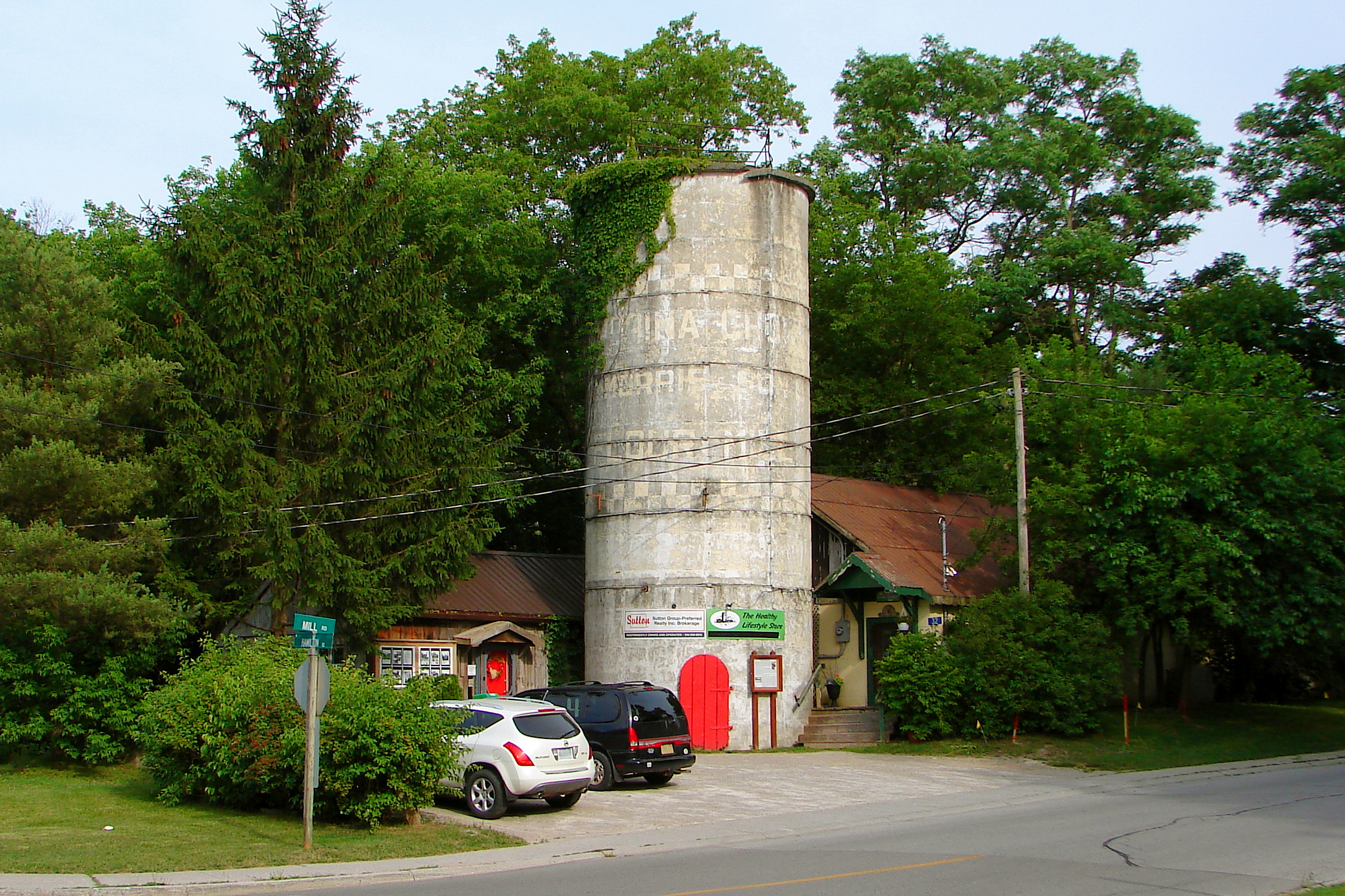 Old mill in Dorchester (Township of Thames Centre), Ontario, Canada